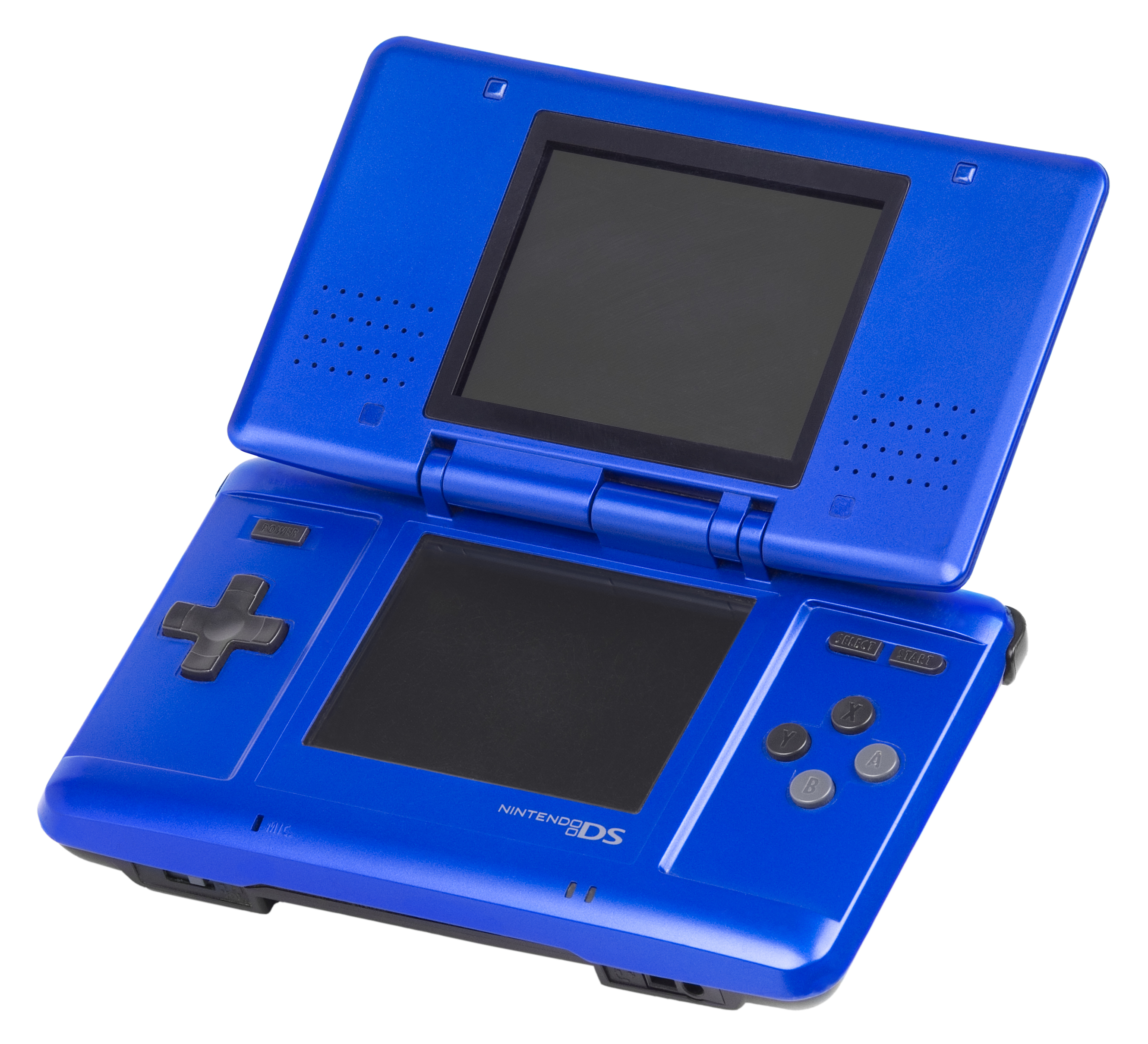 An original Nintendo DS "Fat" in blue.